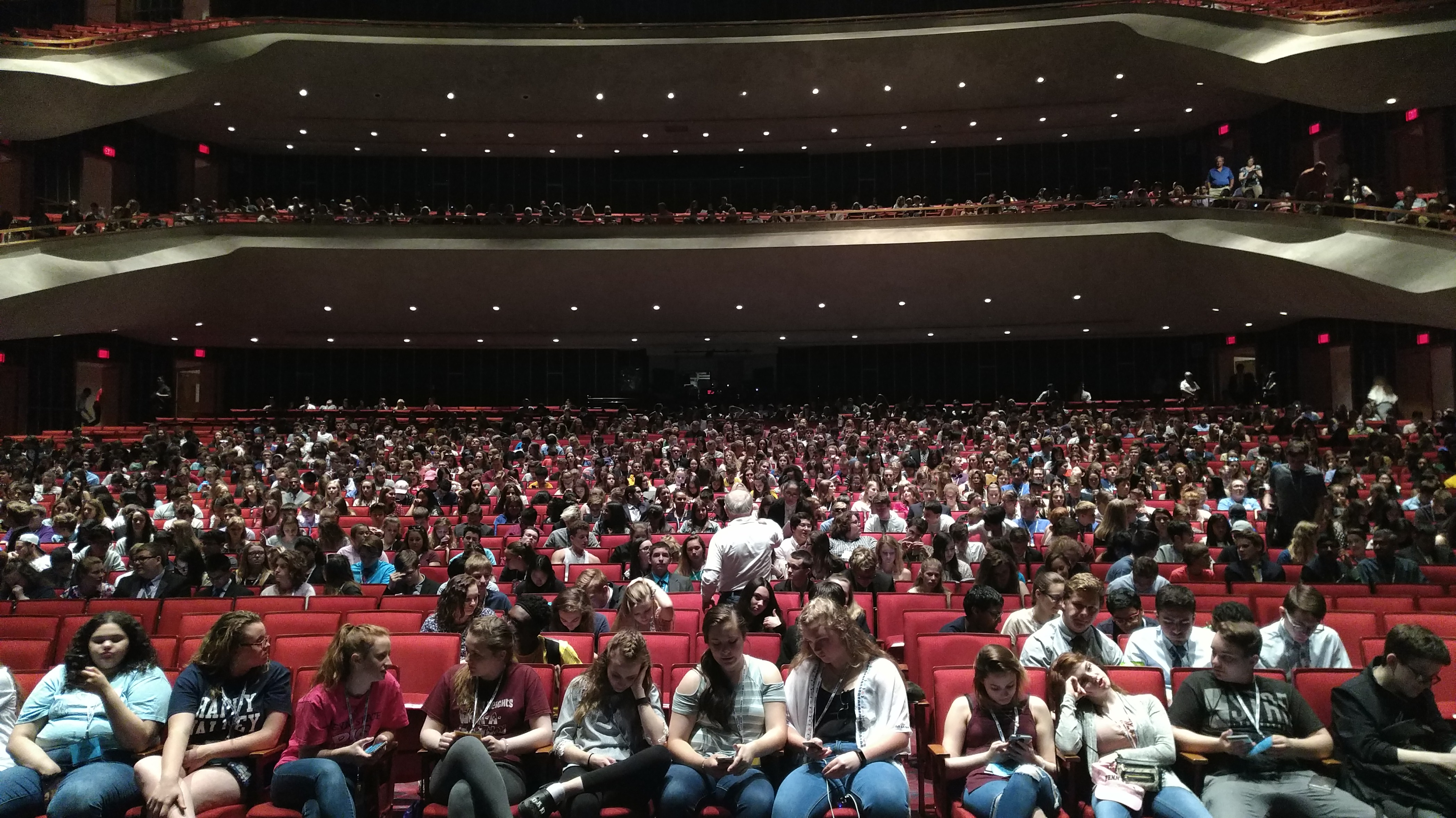 The 2018 morning awards ceremony for PJAS in Eisenhower Auditorium on May 21 as viewed by the awards table. Photo taken by Liam Chambers.